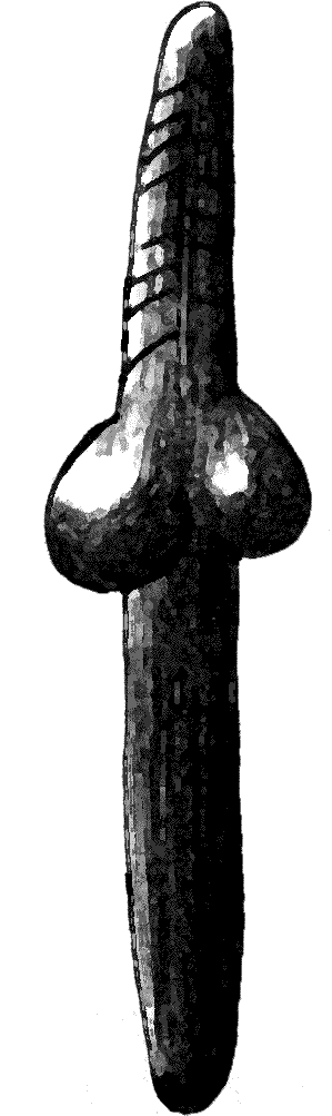 Stylized Venus of Dolní Věstonice (Brno, Czech Republic)